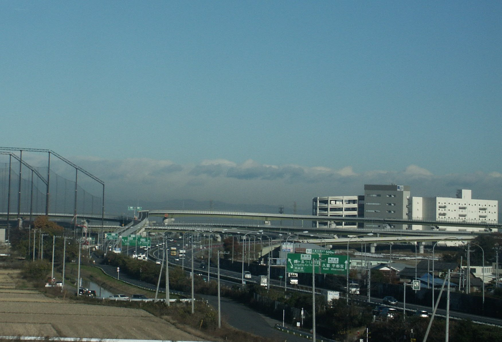 Kuki Shiraoka Junction on the Tohoku Expressway